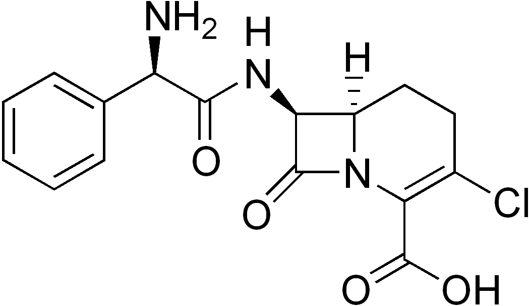 chemical structure of Loracarbef